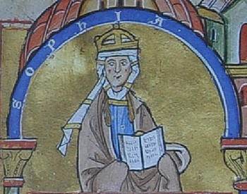 Sophie of Wittelsbach